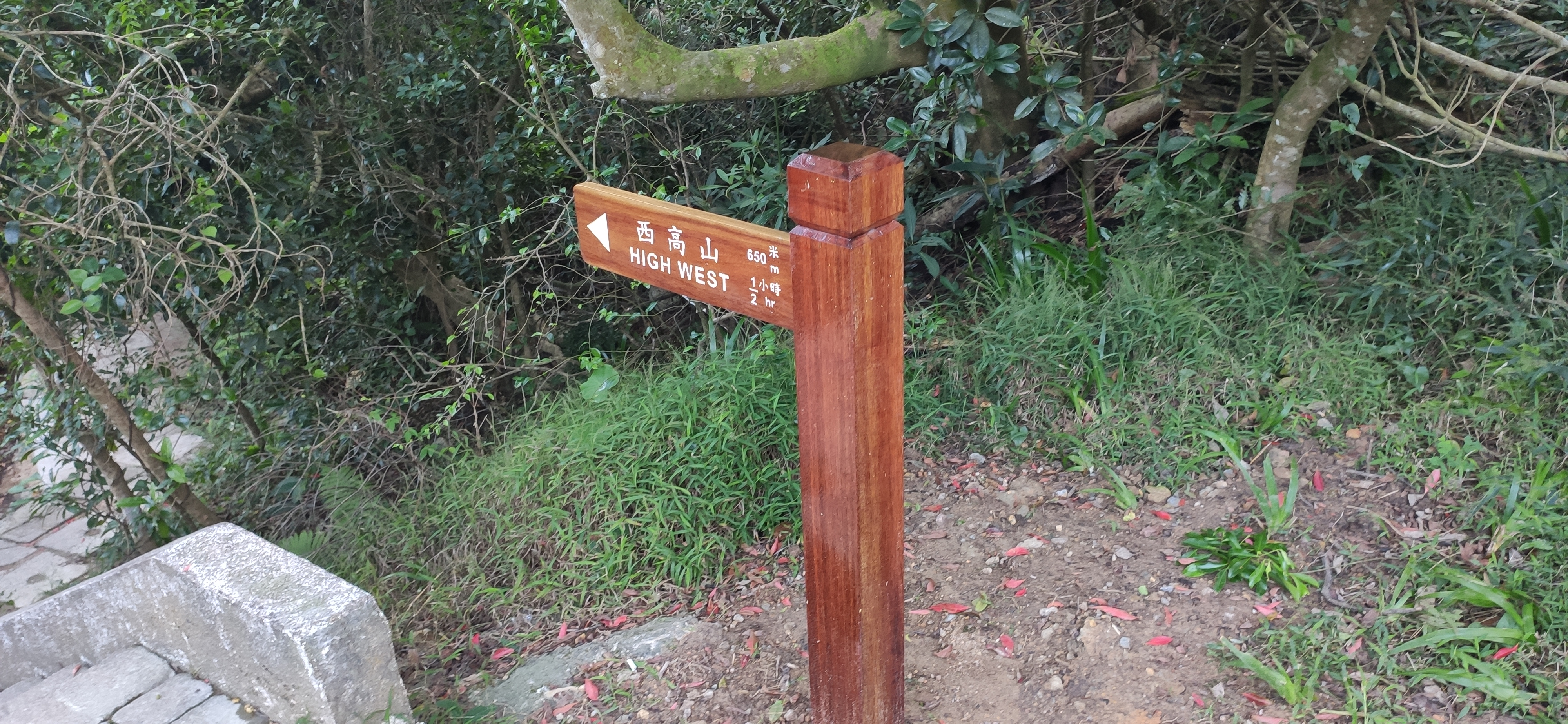 Newly installed sign for High West